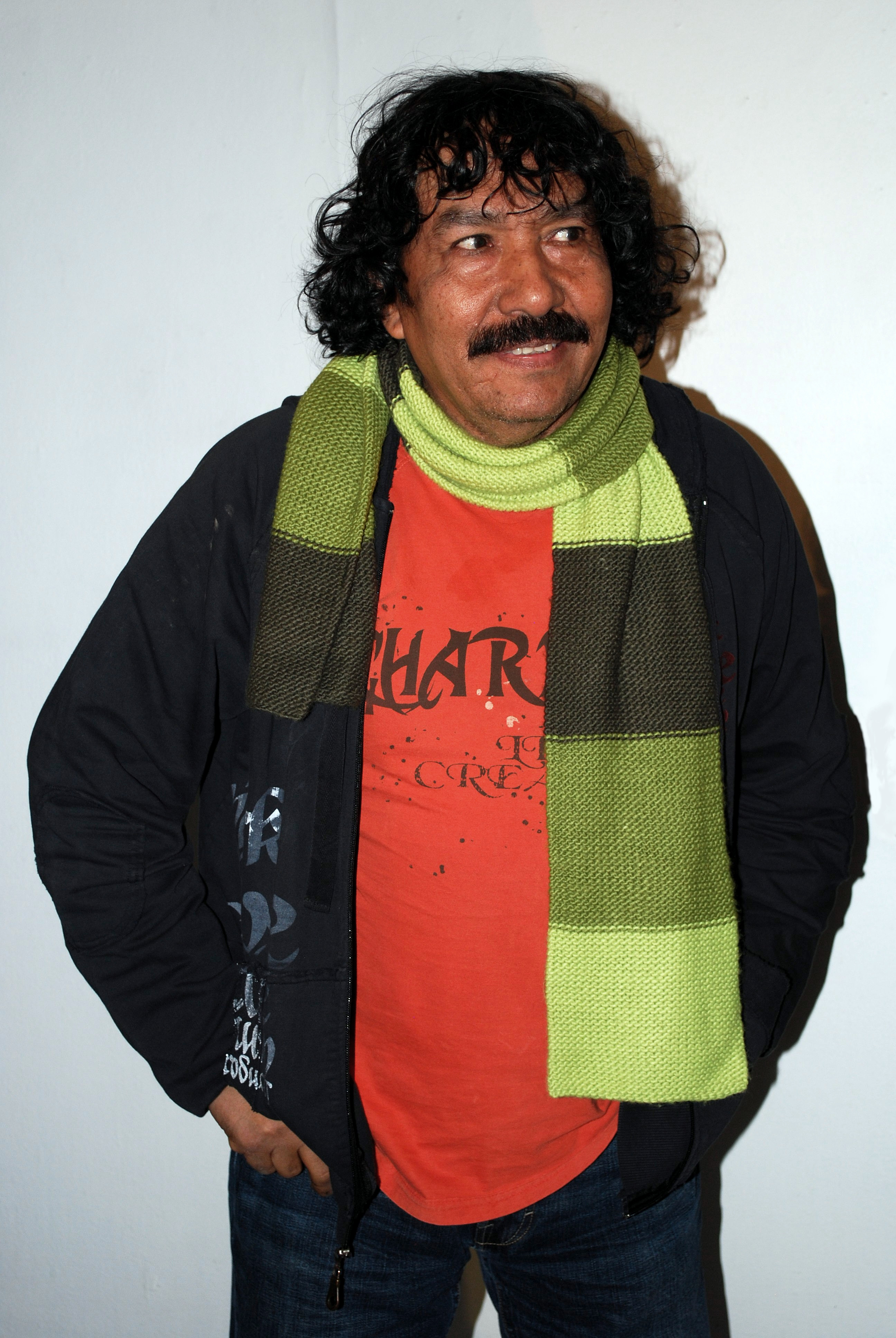 Vladimir Cora at the opening of the Reminiscencias event at the Salón de la Plástica Mexicana in Mexico City